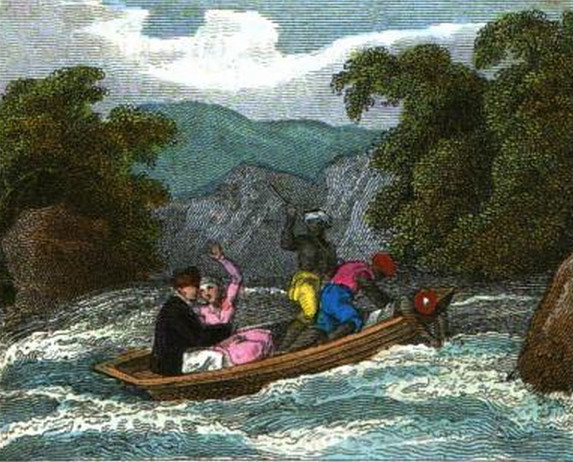 "Mr and Mrs Sarah Belzoni in a bark in the cataract" from Fruits of Enterprise p64 or p66... by Giovanni Battista Belzoni. Picture of Sarah Belzoni - 1841 edition